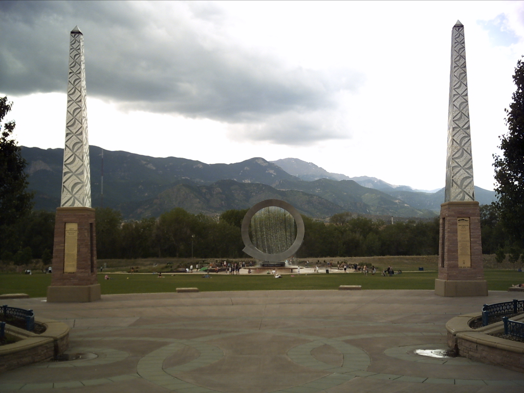 The Julie Penrose Fountain (in background)and two Egyptian style obelisks located in the America the Beautiful park in Colorado Springs .